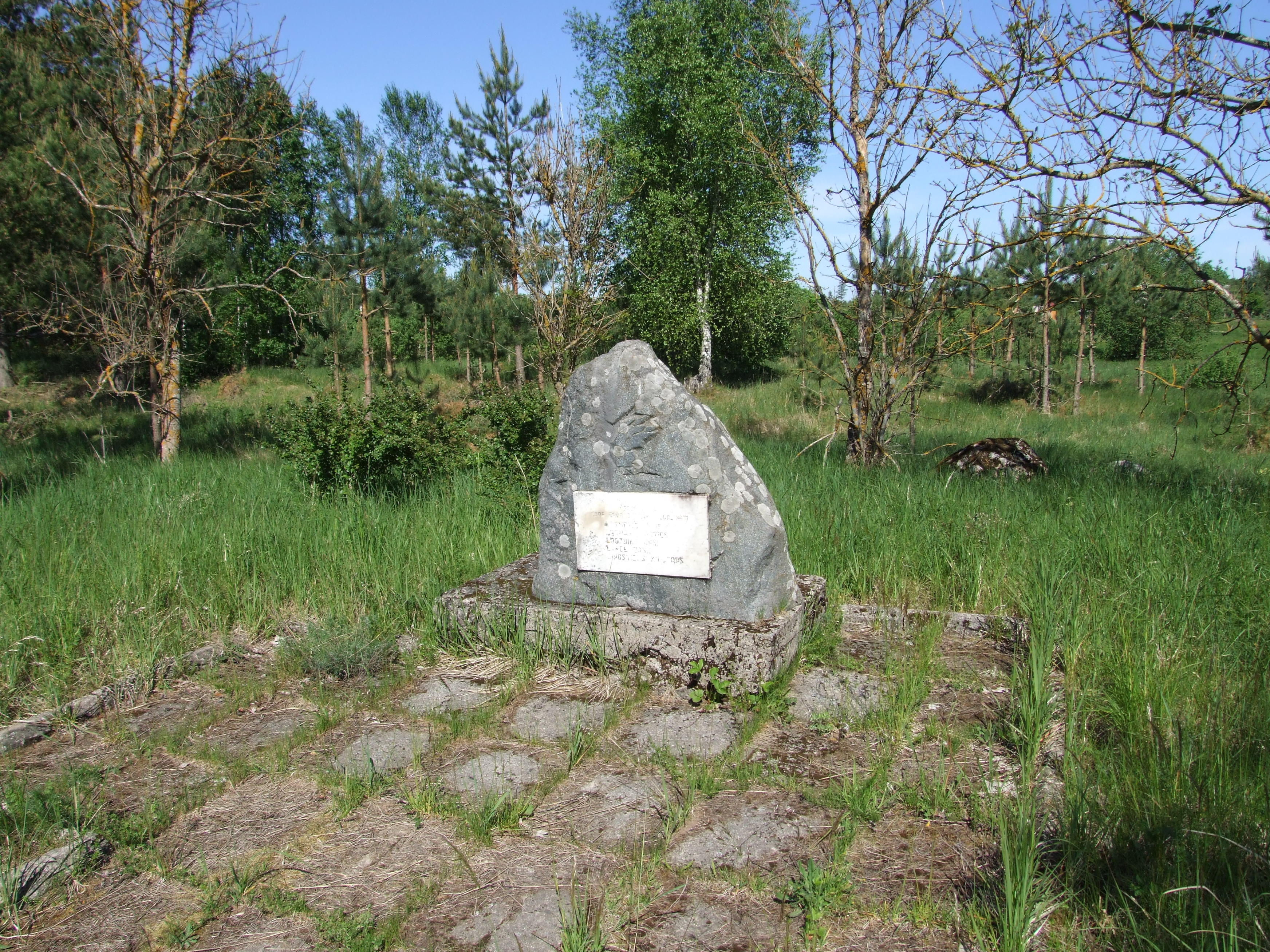 Plaque for victims of Revolution of 1905 near Kaleši